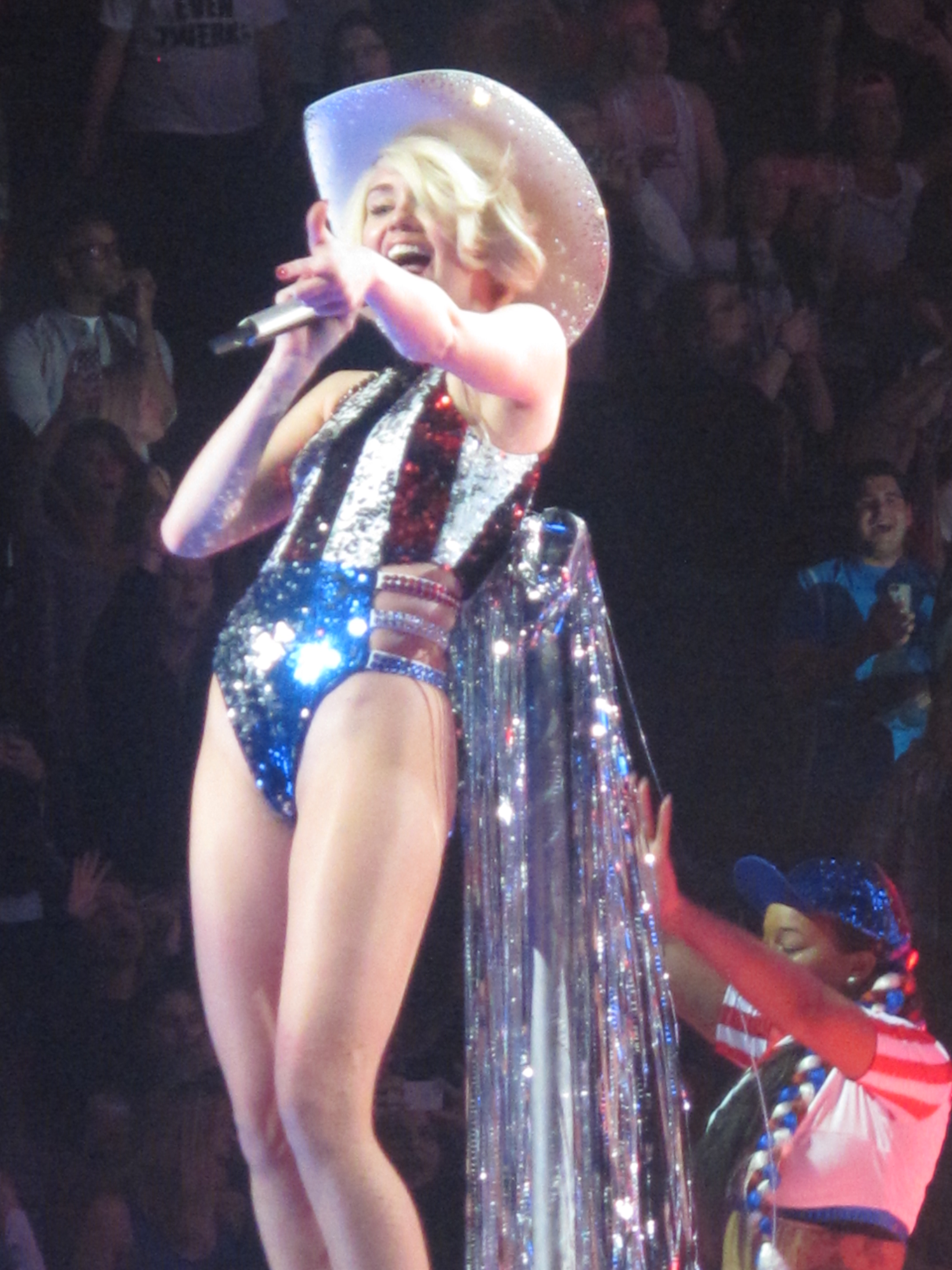 Miley Cyrus-Bangerz Tour - 13092599444